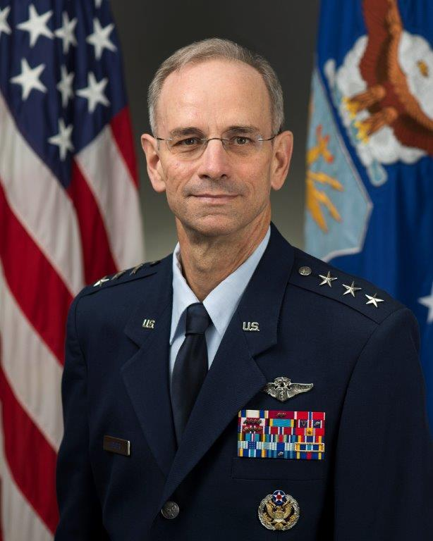 Lt. Gen. (Dr.) Mark A. Ediger is the Surgeon General of the Air Force, Headquarters U.S. Air Force